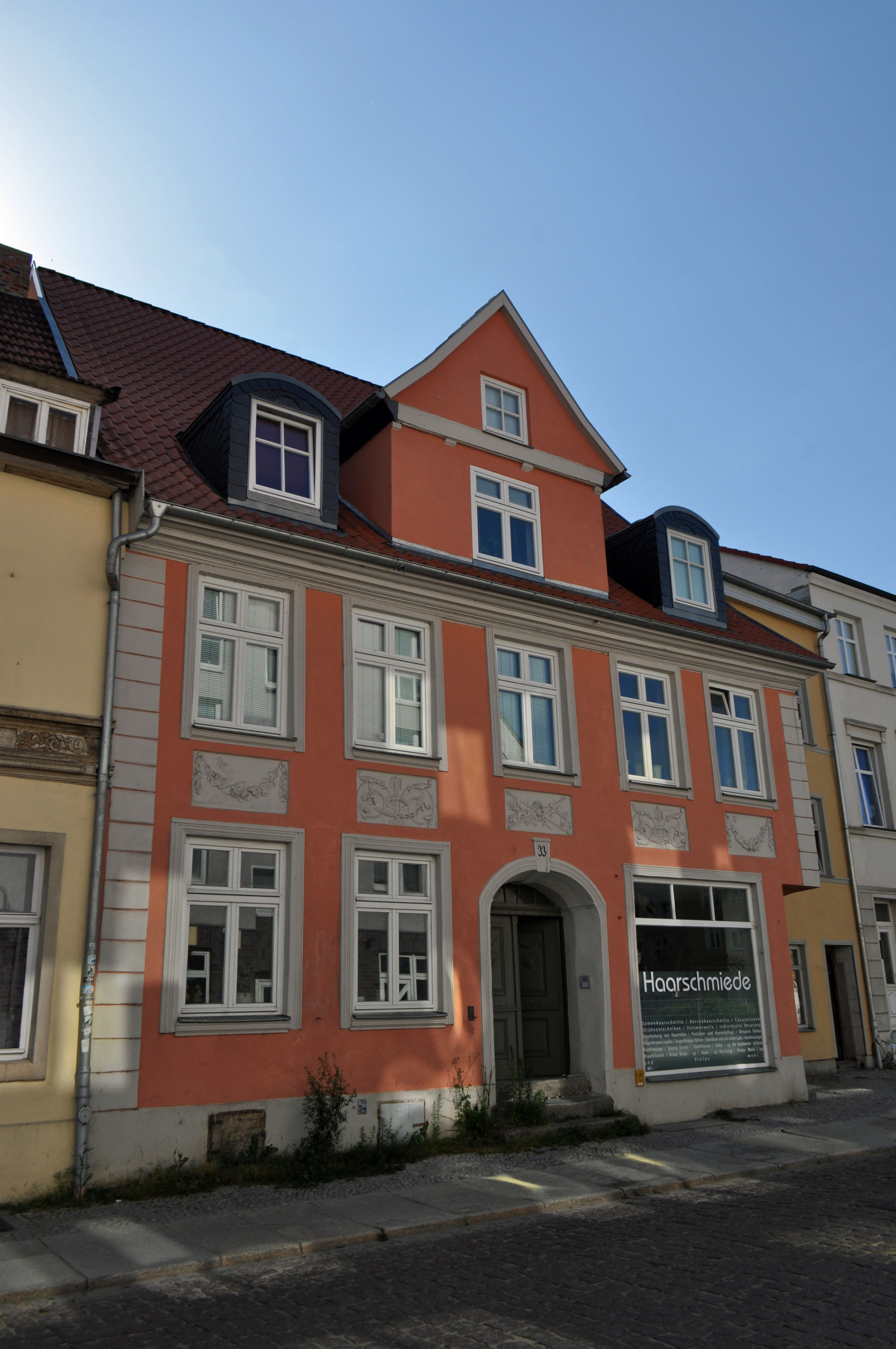 Stralsund, Wasserstraße 33 This is a photograph of an architectural monument.